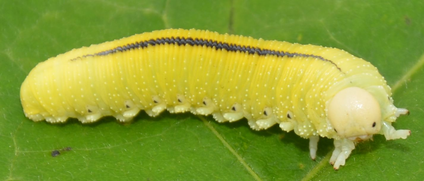 Elm sawfly, Cimbex americana, found on a young aspen in Southern Norway